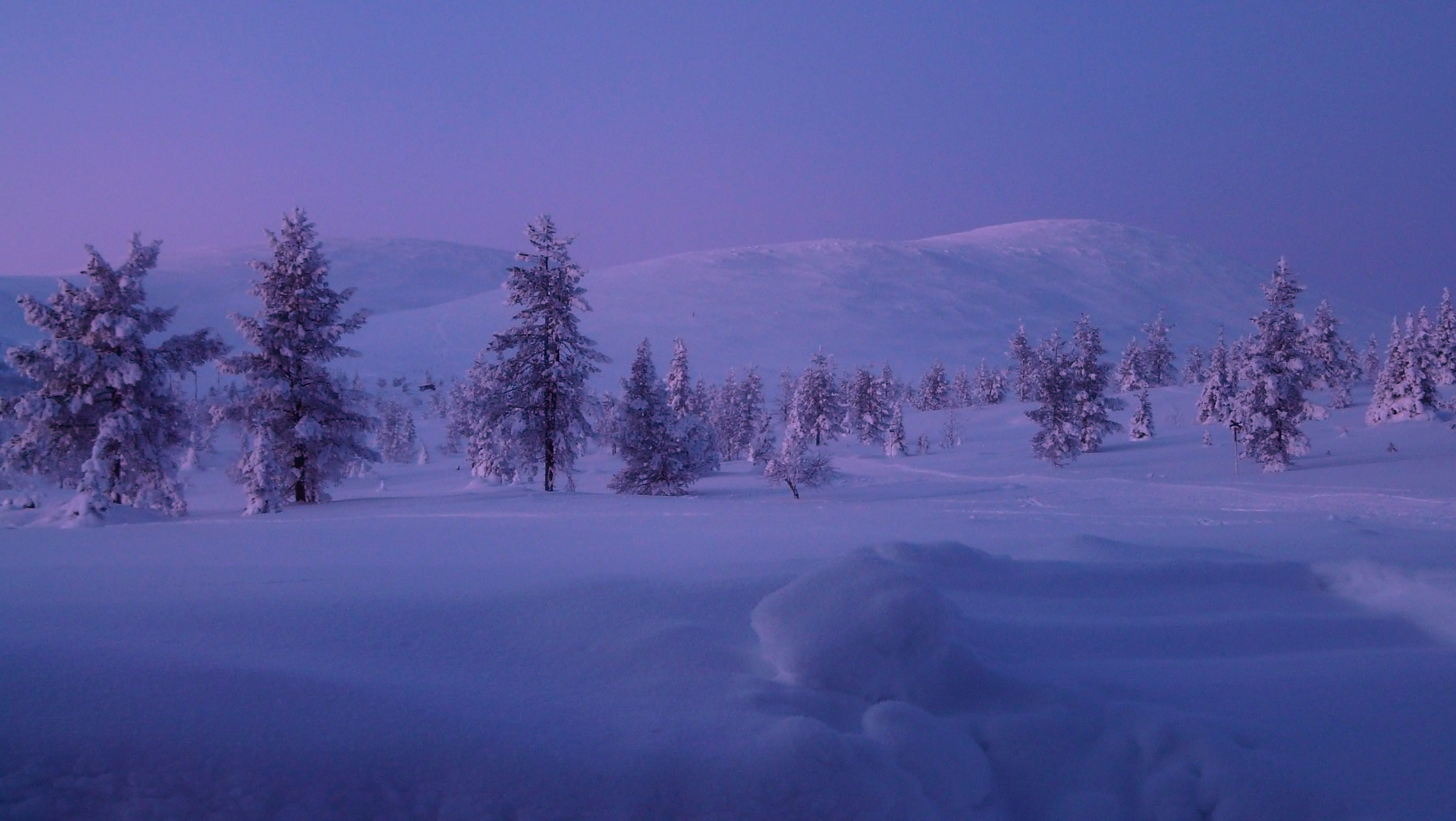 An evening view to Taivaskero and Pyhäkero (summits of Pallastunturi) from the south from Lapland Hotel Pallas in 2009 February.